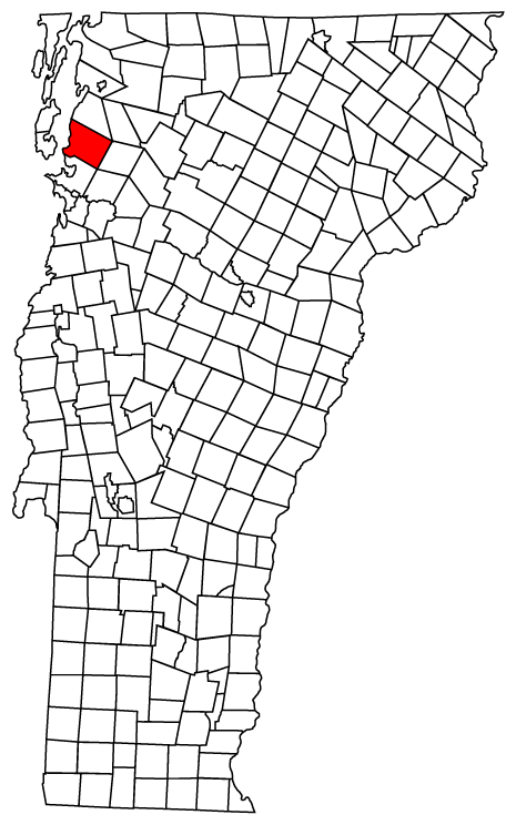 Description: Map of Vermont towns with Milton highlighted Source: Map created by Jared C. Benedict on 26 March 2004. Copyright: © Jared C. Benedict.